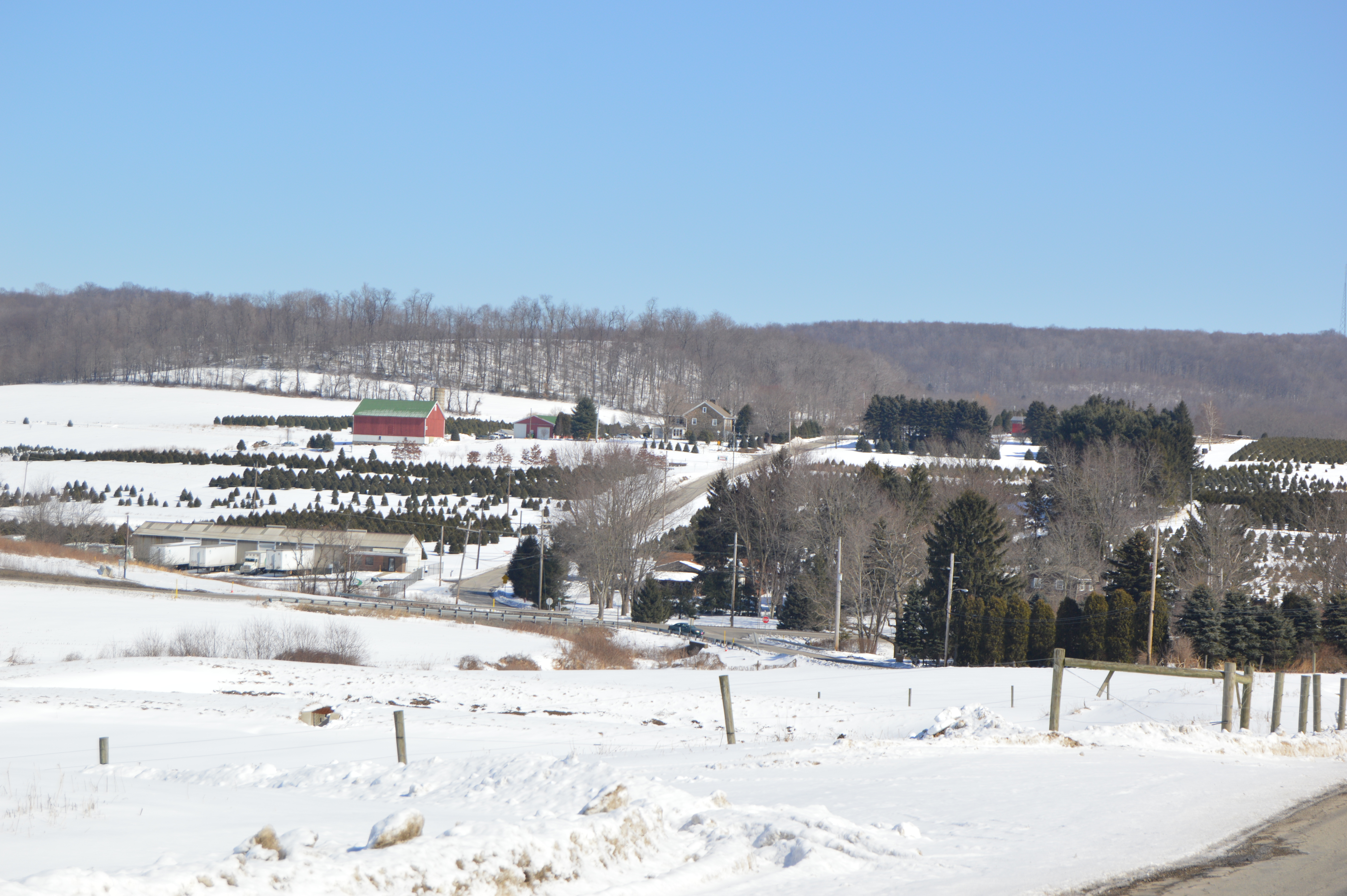 A Christmas tree farm located along Grange Hall Road northeast of Seward in East Wheatfield Township, Indiana County, Pennsylvania, United States.